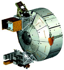 external part of the Columbus laboratory